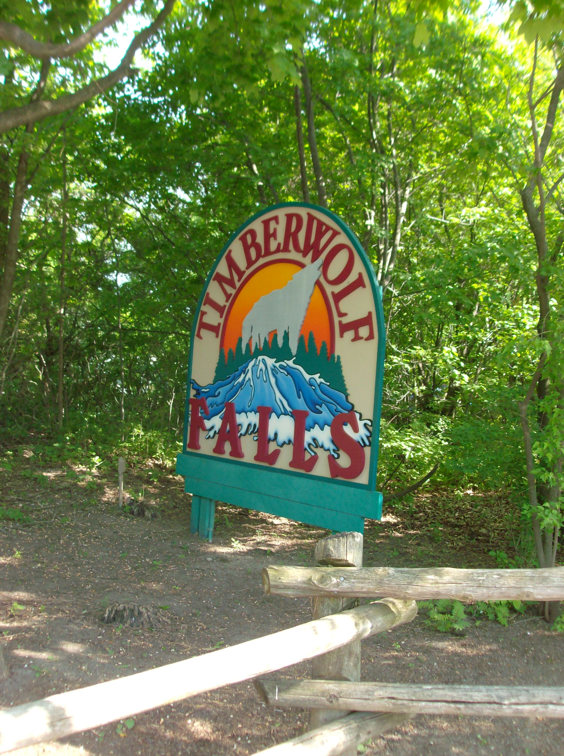 Timberwolf Falls entrance, White Water Canyon area of Canada's Wonderland.